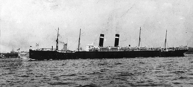 SS Finland (American Passenger Steamship, 1902) Underway in a U.S. harbor, prior to World War I. After service as an Army-chartered transport in 1917, this ship was acquired by the Navy on 24 April 1918 and placed in commission as USS Finland two days later. She was decommissioned and returned to the Army on 15 November 1919. At some point during or shortly after her Navy service she was assigned the registry ID # 4543. U.S. Naval Historical Center Photograph.